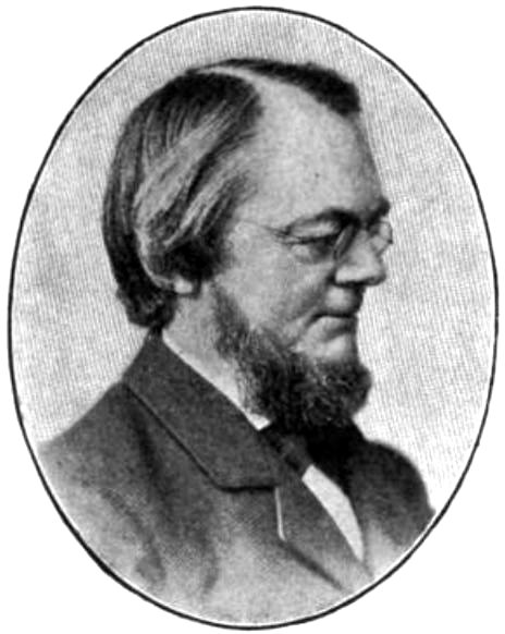 Image Boston literary critic Edwin Percy Whipple. From the book Literary Pilgrimages in New England to the Homes of Famous Makers of American Literature and Among Their Haunts and the Scenes of Their Writings by Edwin M. Bacon, published by Silver, Burdett, and Company (1902): page 372.